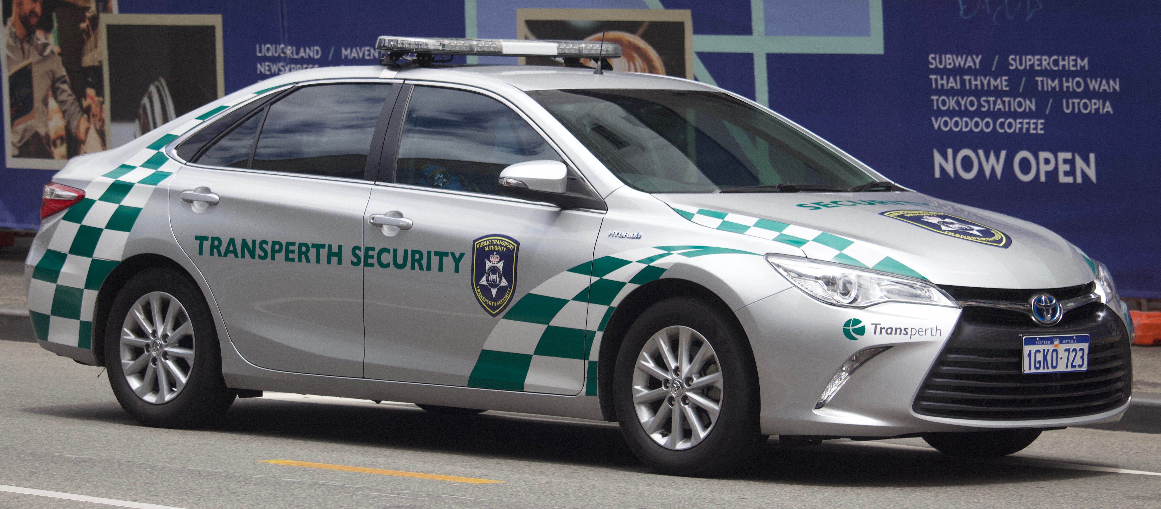 2017 Toyota Camry (AVV50R) Altise sedan, Transperth Security. Photographed in Perth, Western Australia, Australia.